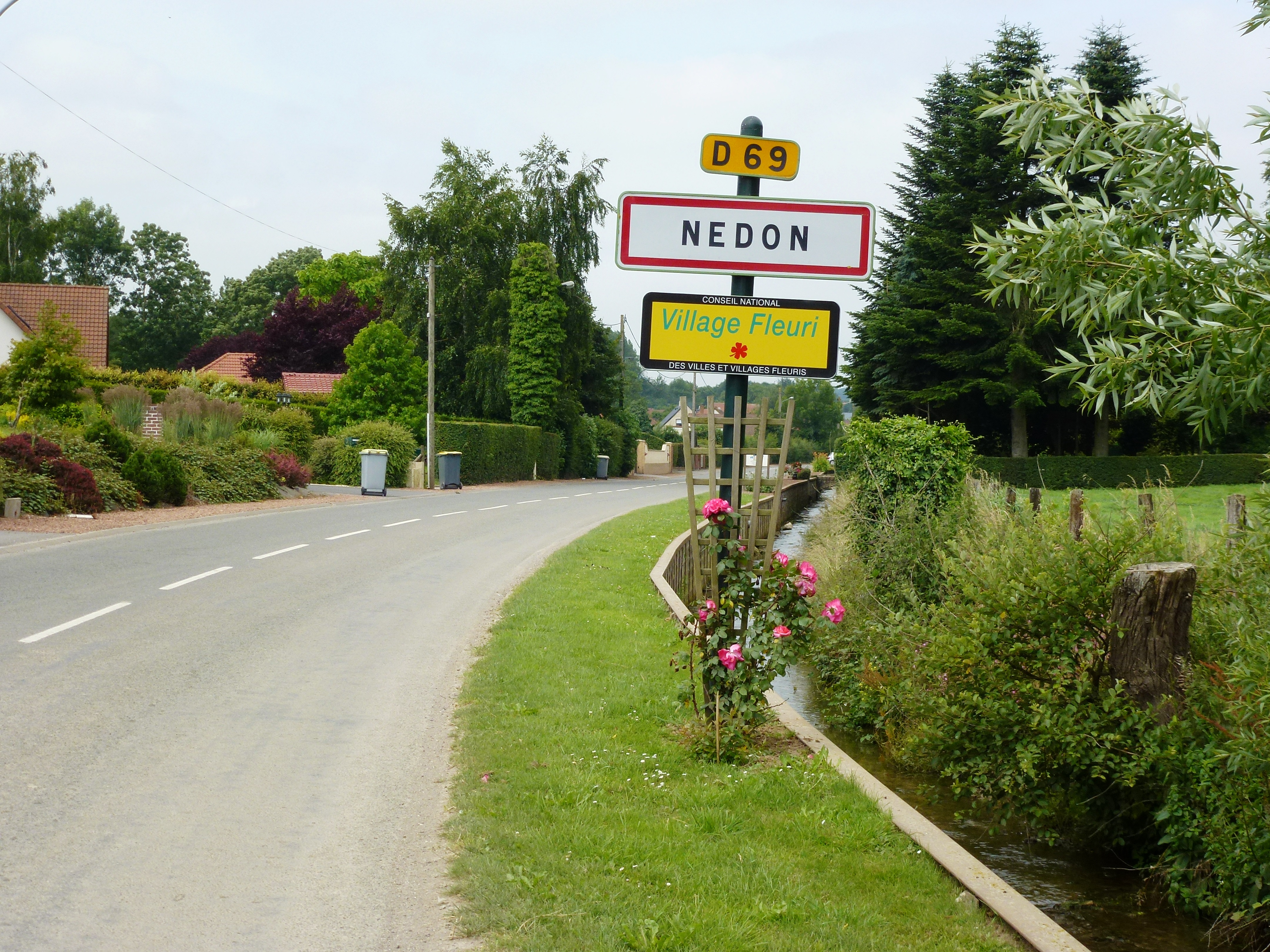 Nédon (Pas-de-Calais) city limit sign and Nave river